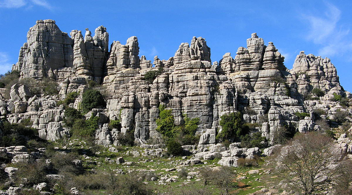 El Torcal